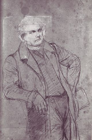 Drawing study for Portrait of monsieur Bertin